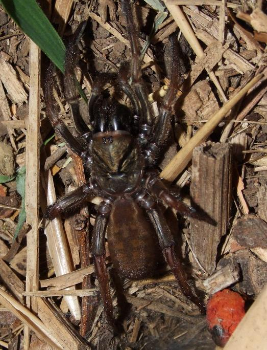 Sydney brown trapdoor spider (Misgolas rapax) in Kurrajong, New South Wales.